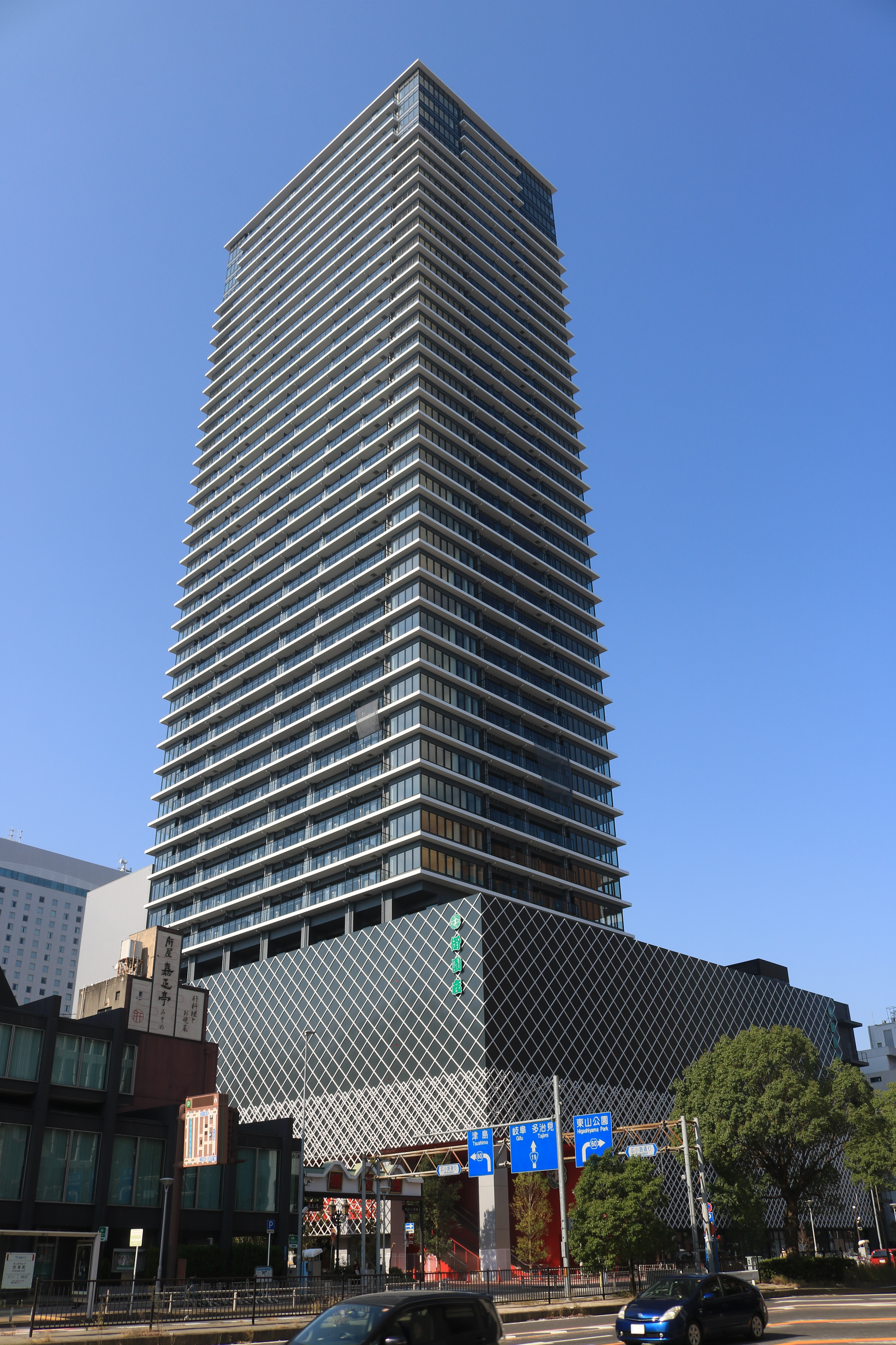 Grande maison Misonoza the tower in Sakae, Naka-ku, Nagoya, Aichi Prefecture, Japan.